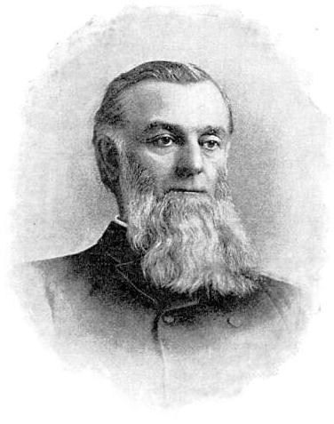 Portrait drawing of William Barstow Strong published in the February 1893 issue of The Cosmopolitan. Category:Barstow Category:Strong City